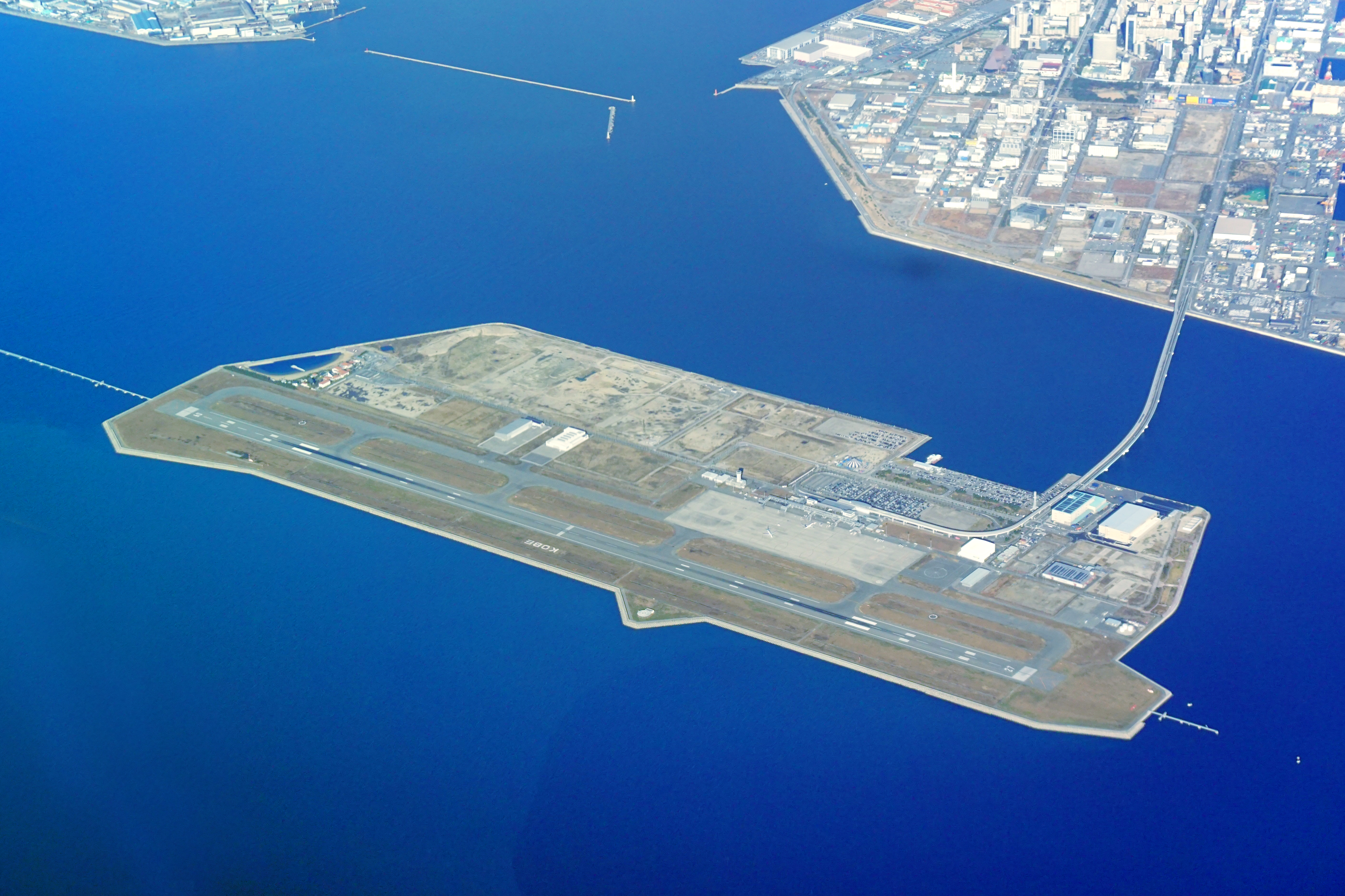 Kobe Airport from the sky in Kobe City, Hyogo prefecture, Japan